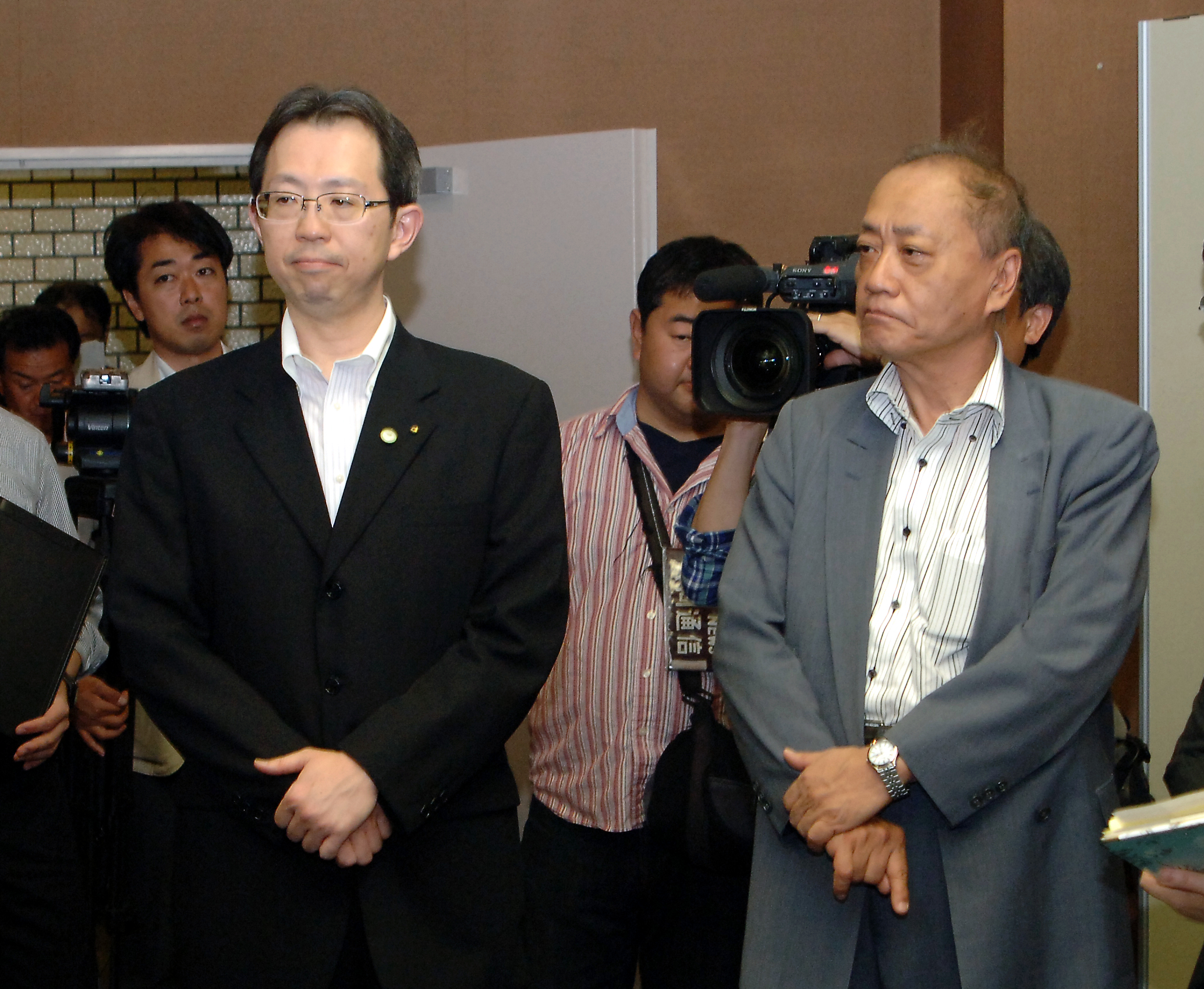 Masao Uchibori, Deputy Governor of Fukushima Prefecture, and Shin Maruo, Ambassador for Science and Technology Cooperation, met Elena Buglova, Head of the Incident and Emergency Centre, International Atomic Energy Agency, at the IAEA RANET Capacity Building Centre in Fukushima City, Fukushima Prefecture on May 27, 2013.